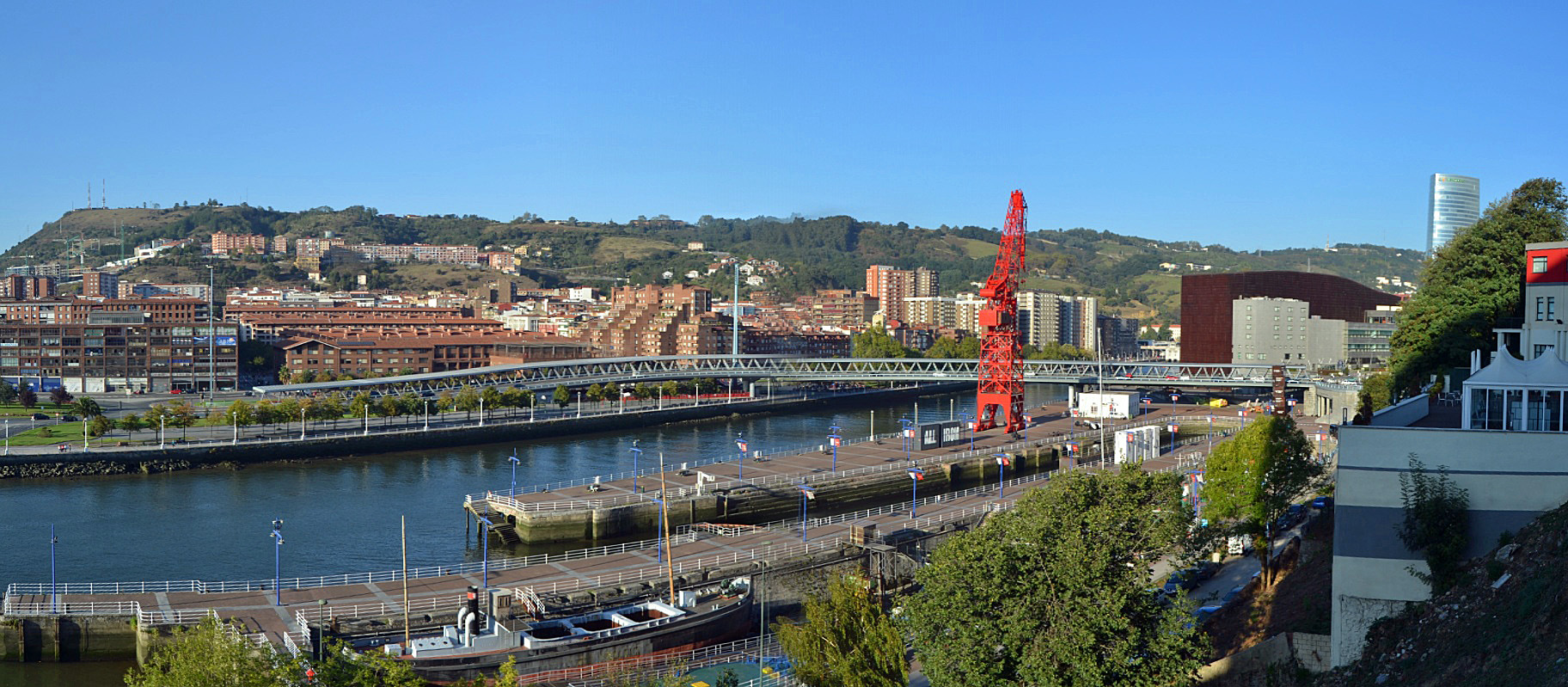 Euskalduna bridge, Bilbao. Bizkaia, Basque Country.